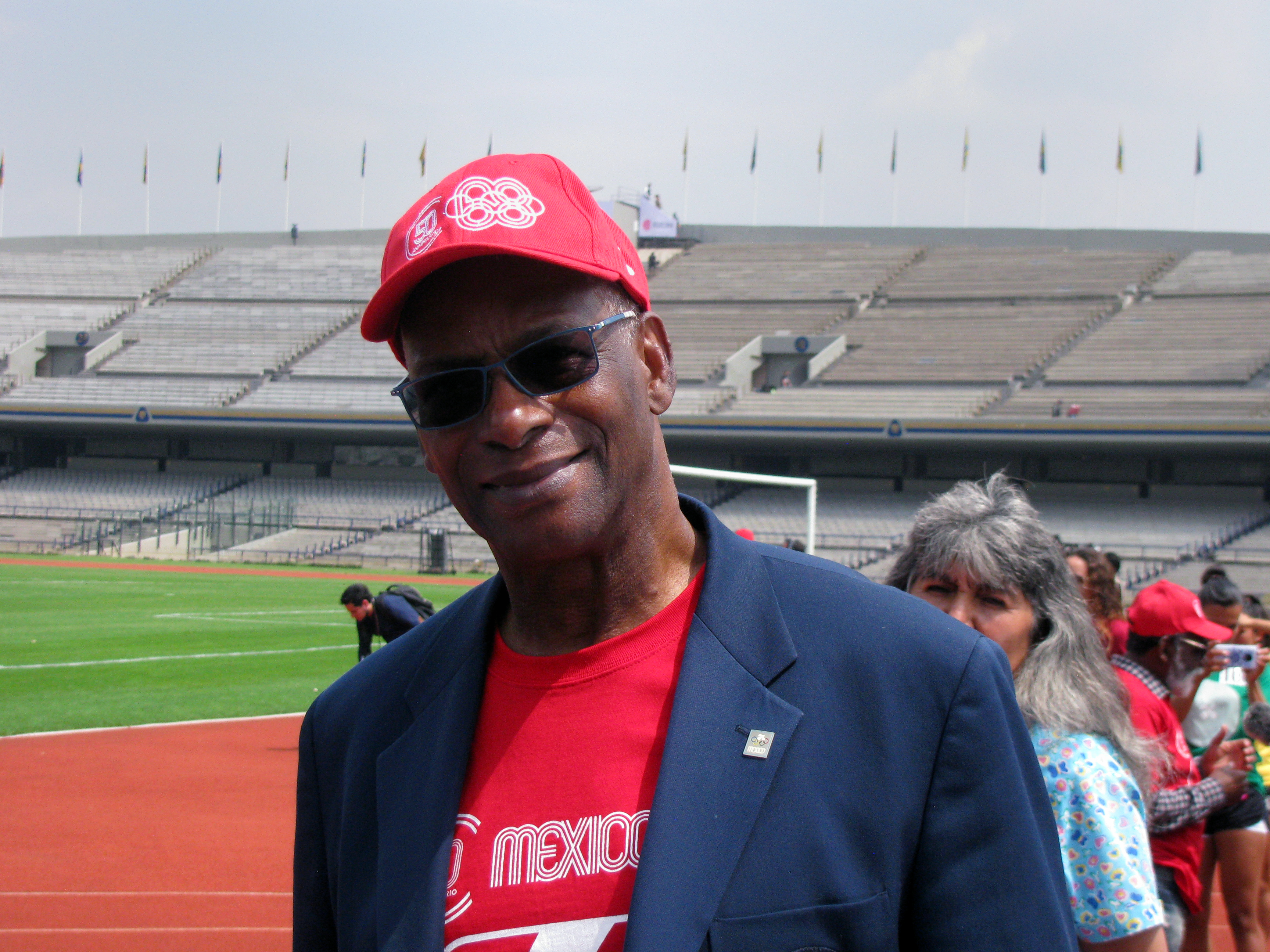 Event to commemorate the 50th anniversary of the 1968 Olympic Games in Mexico. University Olympic Stadium, Mexico City, Mexico.